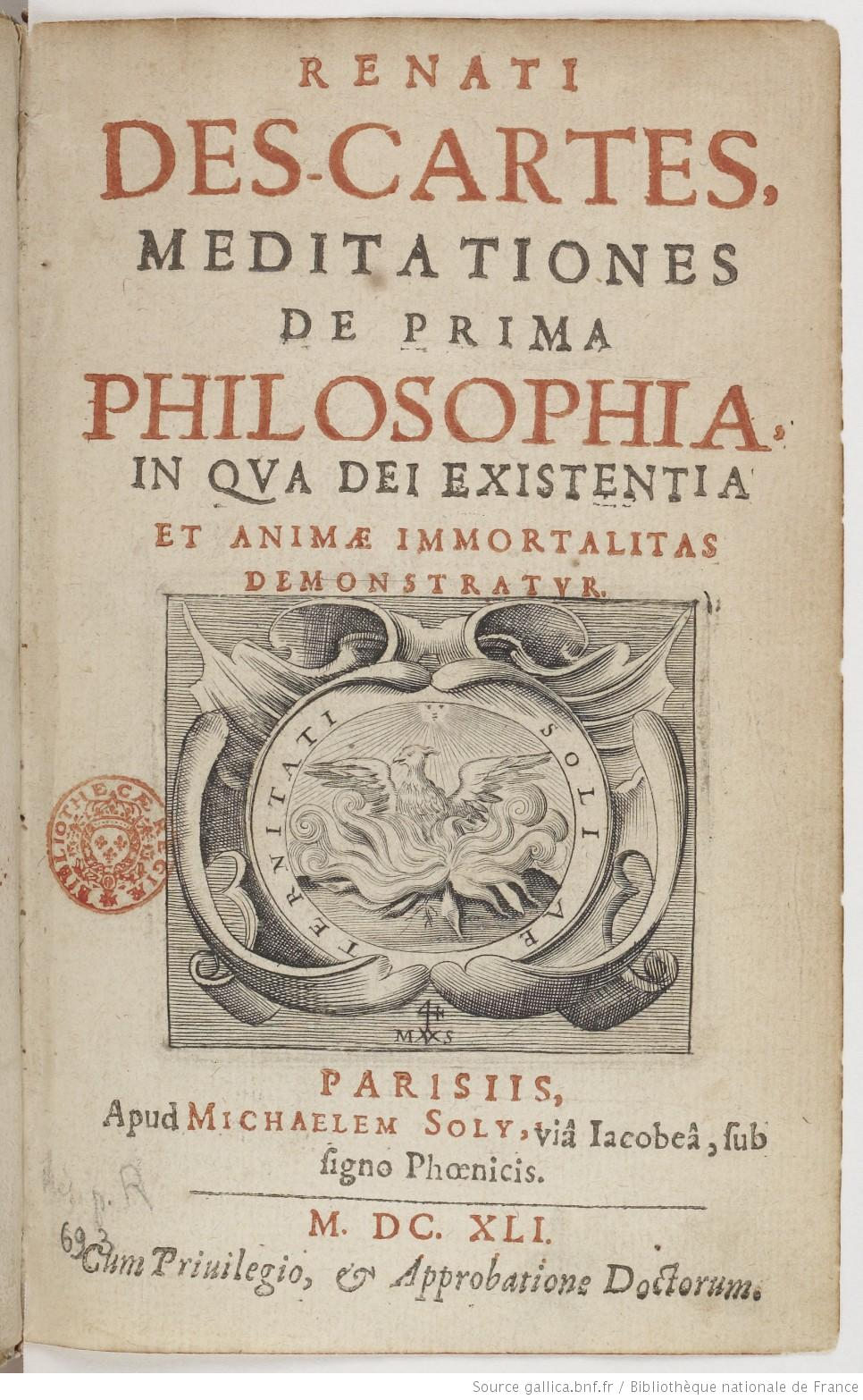 Original title page for the first Latin edition (1641) of the Meditationes de prima philosophiaby René Descartes